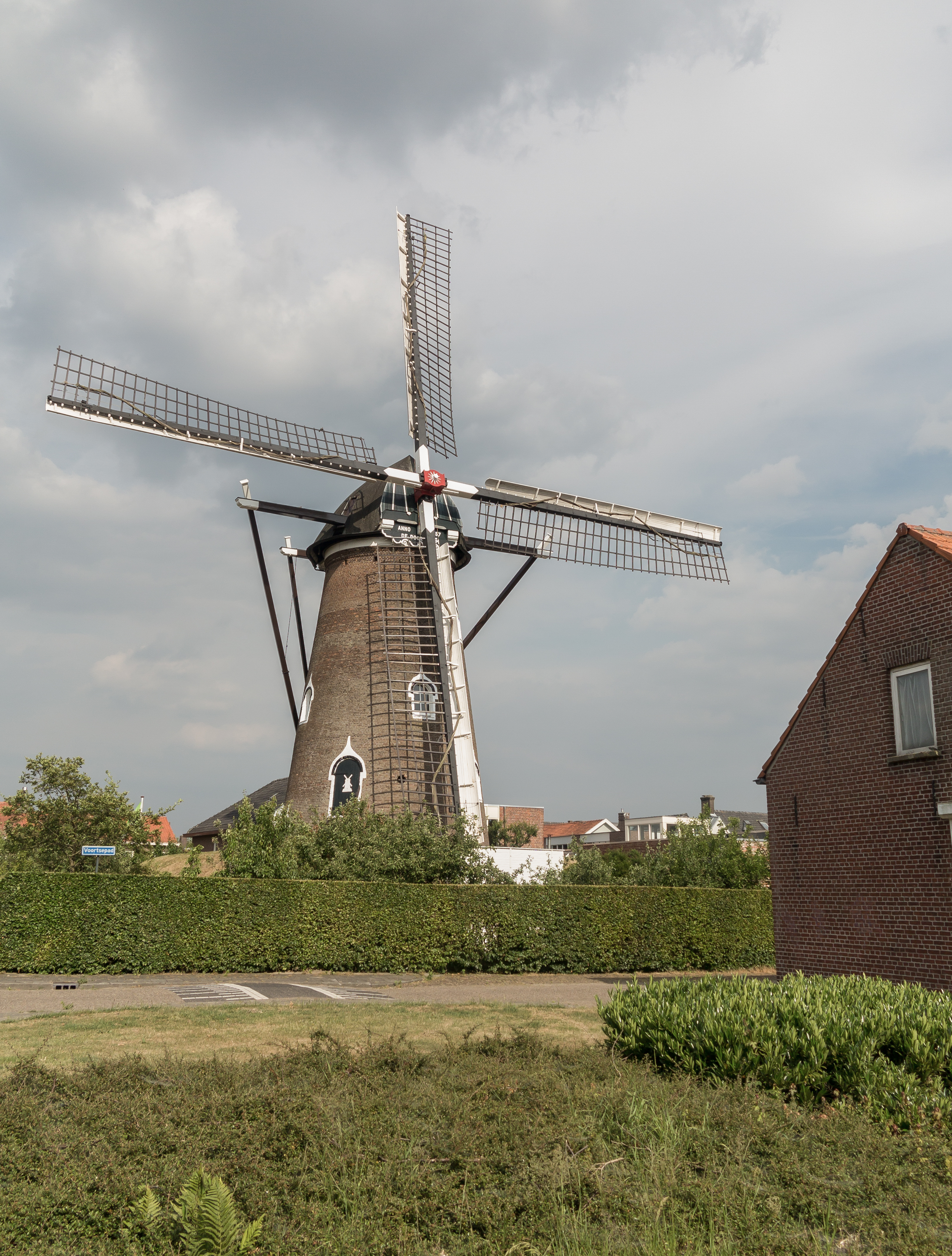 Hilvarenbeek, windmill: windmolen de Doornboom